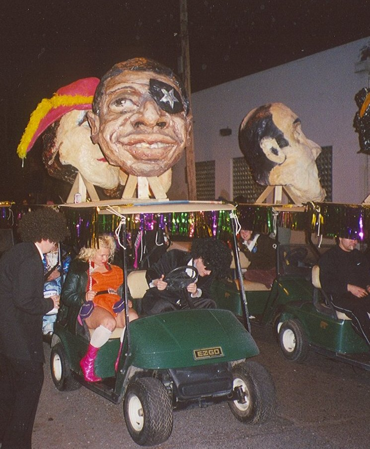 Golf cart floats, New Orleans Carnival "Krewe of OAK" parade Photo by Infrogmation of New Orleans, 4 February, 2005.